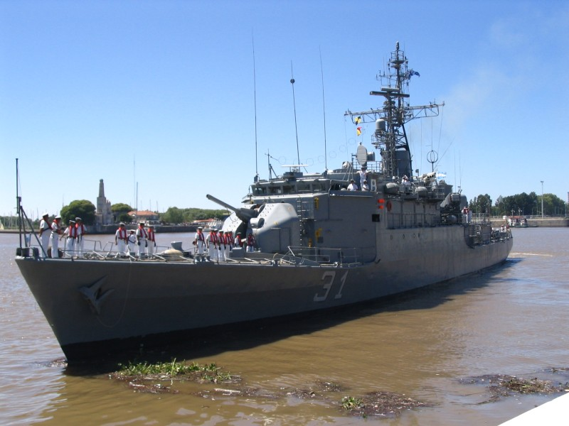 ARA Drummond (P-31), corbette